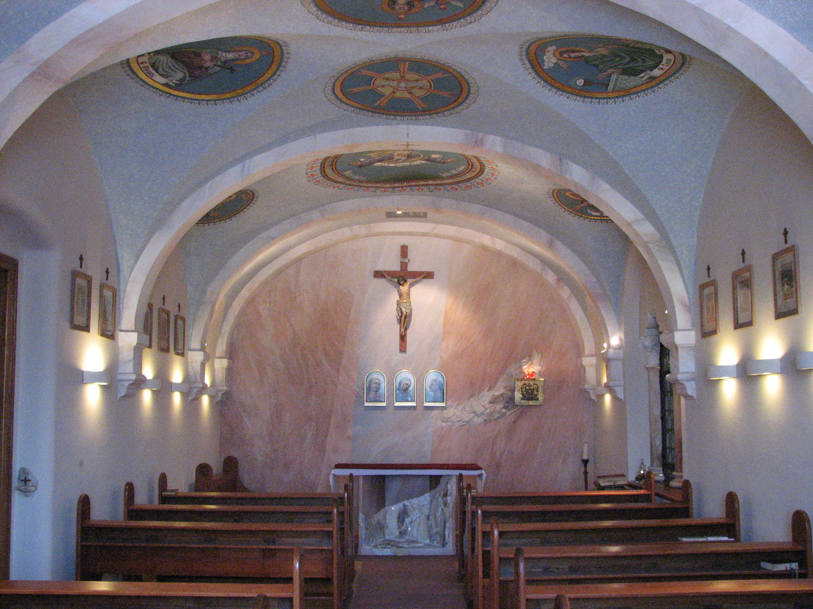 Interior Chapel of the Franciscan monastery in Katowice Panewniki, Poland